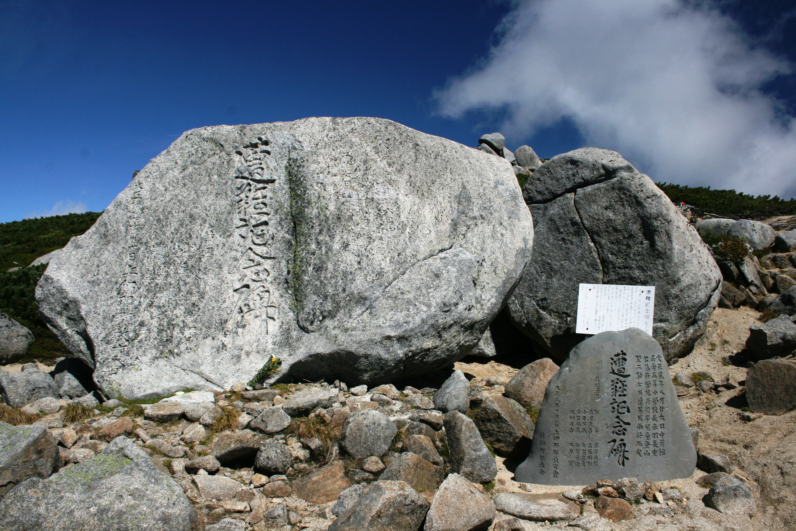 Stele Seishoku in Mount Shogigashira of Kiso Mountains , Japan.